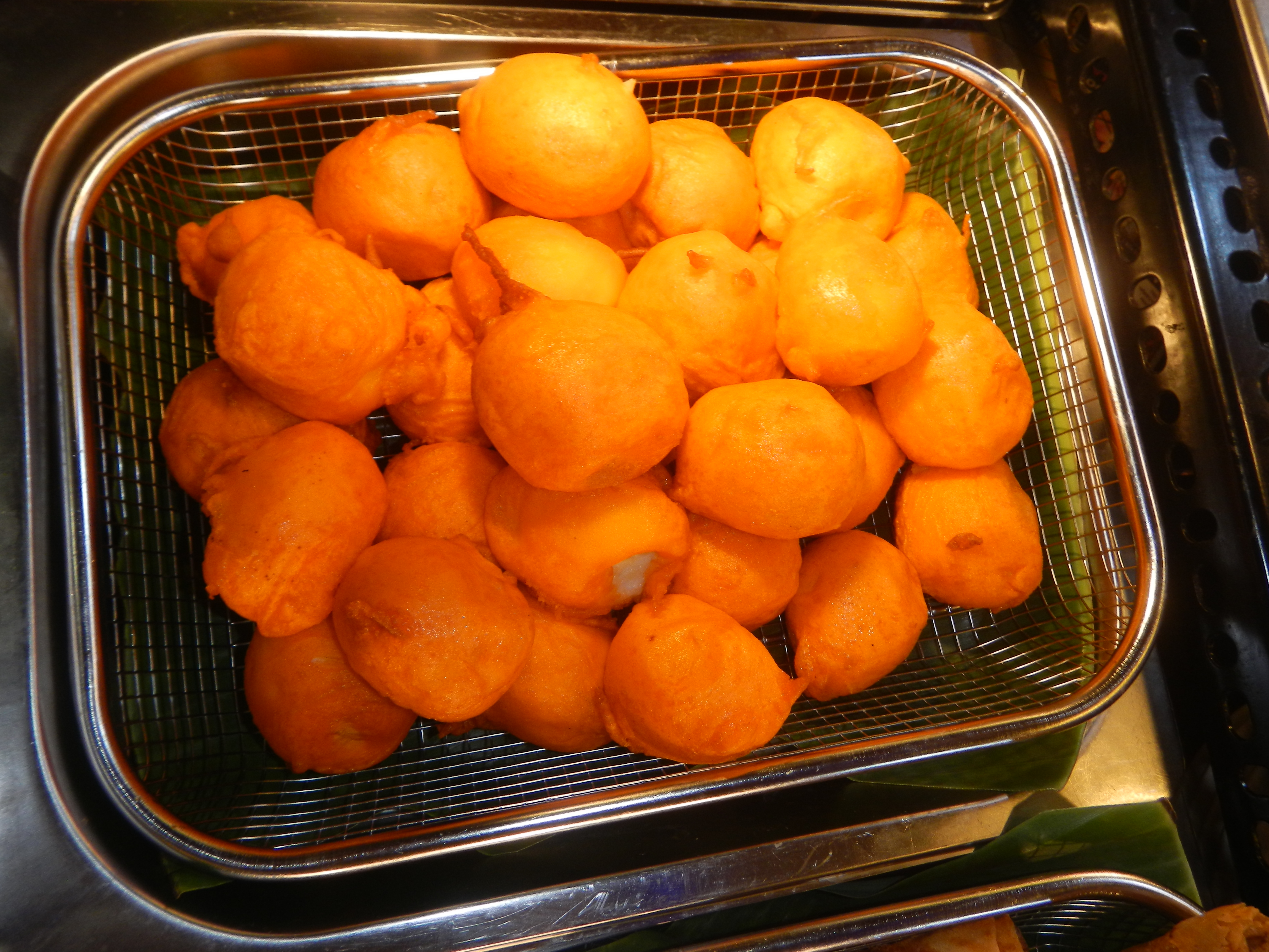 Philippine cuisine List of Philippine dishes Banana ketchup Lechon sauce Otap (food) Turon (food) Bicol express Laing Kaldereta Dinuguan Bopis Lechon kawali Longaniza Longaballs Tocneneng Barangay Pagala, 14°58'14"N 120°53'26"E Baliuag, Bulacan, Bulacan, along DRT Highway or Maharlika Highway (Cagayan Valley Road, Baliuag-Pulilan-Guiguinto, Bulacan) Pan-Philippine Highway, also known as the Maharlika "Nobility/freeman" Highway or Asian Highway 26, Cagayan Valley Road (Note: Judge Florentino Floro, the owner, to repeat, Donor Florentino Floro of all these photos hereby donate gratuitously, freely and unconditionally all these photos to and for Wikimedia Commons, exclusively, for public use of the public domain, and again without any condition whatsoever).